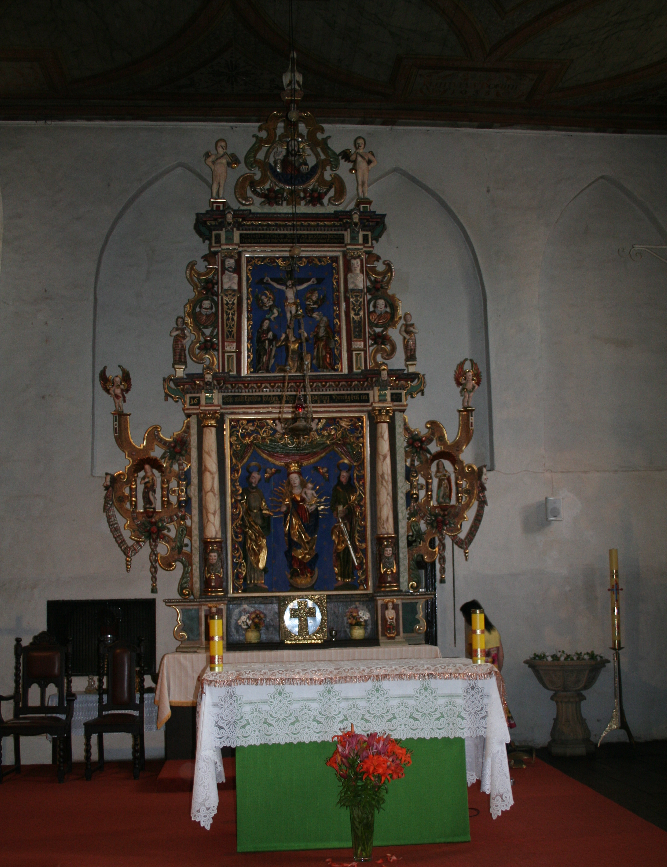 Holy Cross church in Szestno